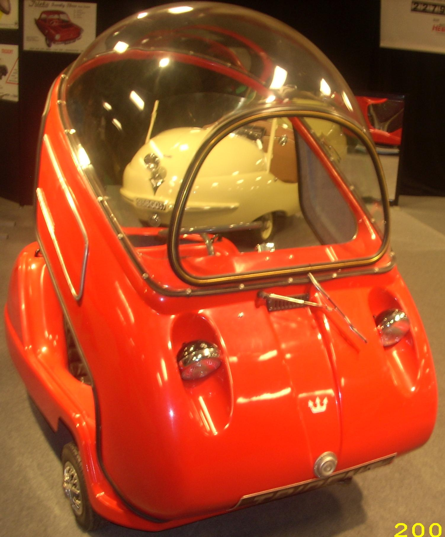 1965 Peel Trident photographed in Montreal, Quebec, Canada at the 2010 Montreal International Auto Show.